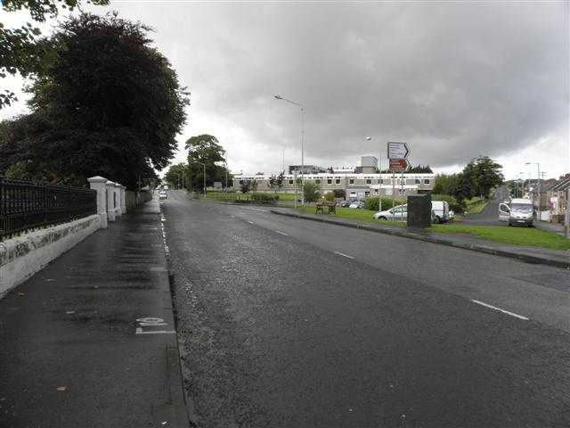 A44 Castle Street, Ballycastle